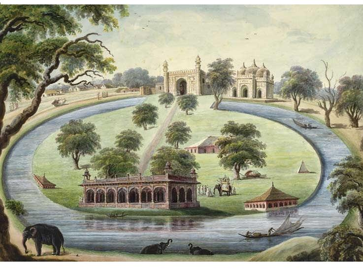 A panoramic painting of the Maotijhil palace, lake, mosques and tombs.